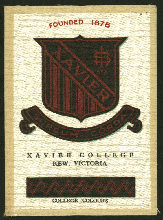 Cigarette Card collector series featuring Crests and colours of Australian Universities, colleges and schools: Xavier College (Melbourne).